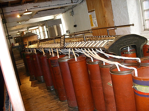 Restored primary level spinning machine at Quarry Bank Mill.